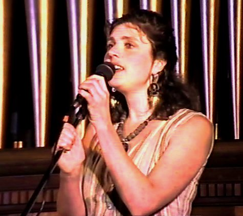 Melanie Shanahan (musician) on stage in Hobart, Australia, April 1995 (Tony Rees photograph)